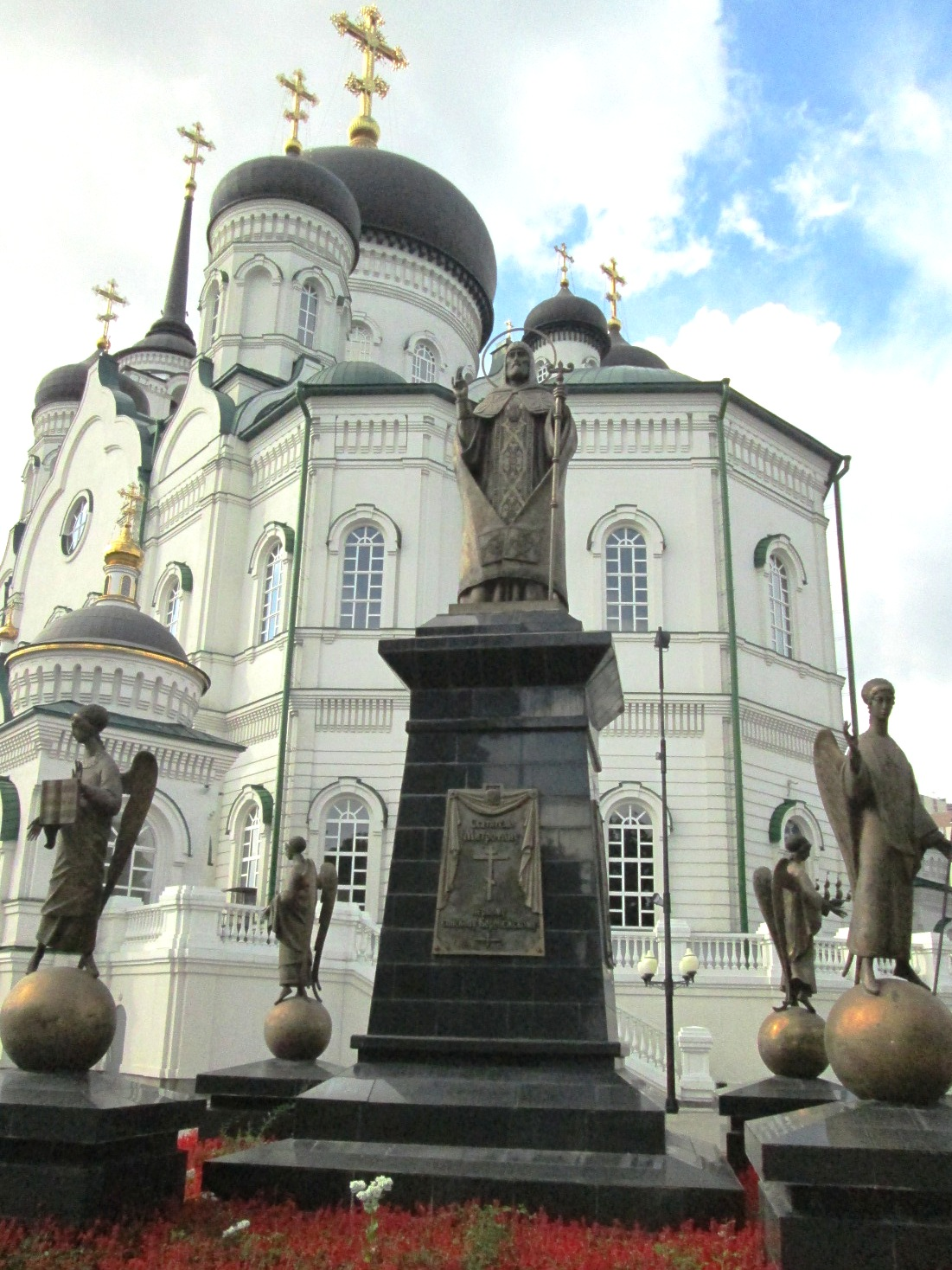 Annunciation Cathedral in Voronezh, Russia